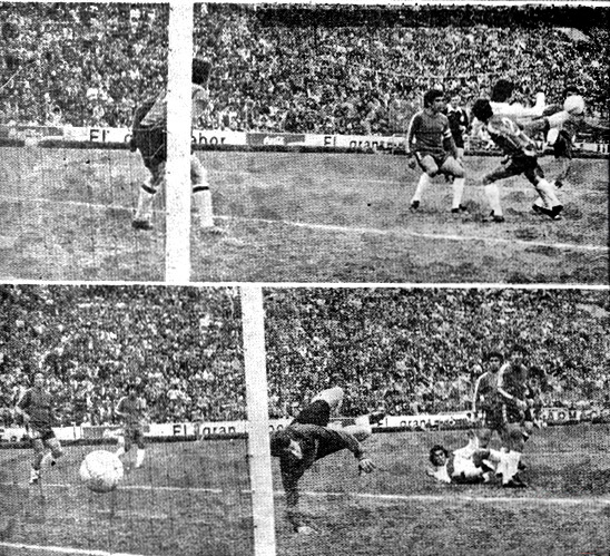 During a 1975 Copa America match between Peru and Chile, Peruvian winger Juan Carlos Oblitas scores from a chalaca (bicycle kick).